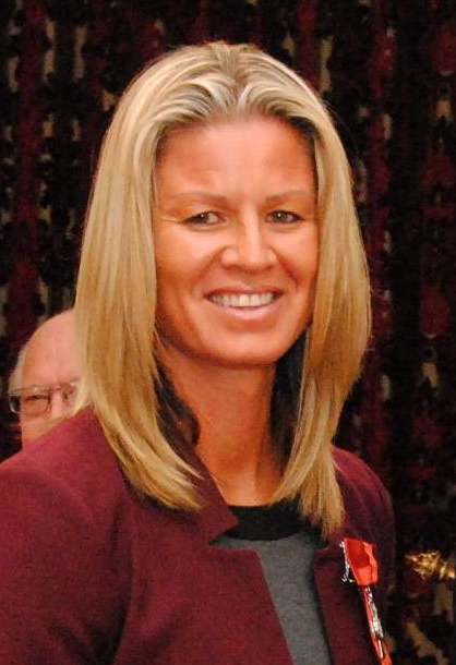 Maia Jackman, of Auckland, after her investiture as a Member of the New Zealand Order of Merit, for services to football, on 24 May 2013